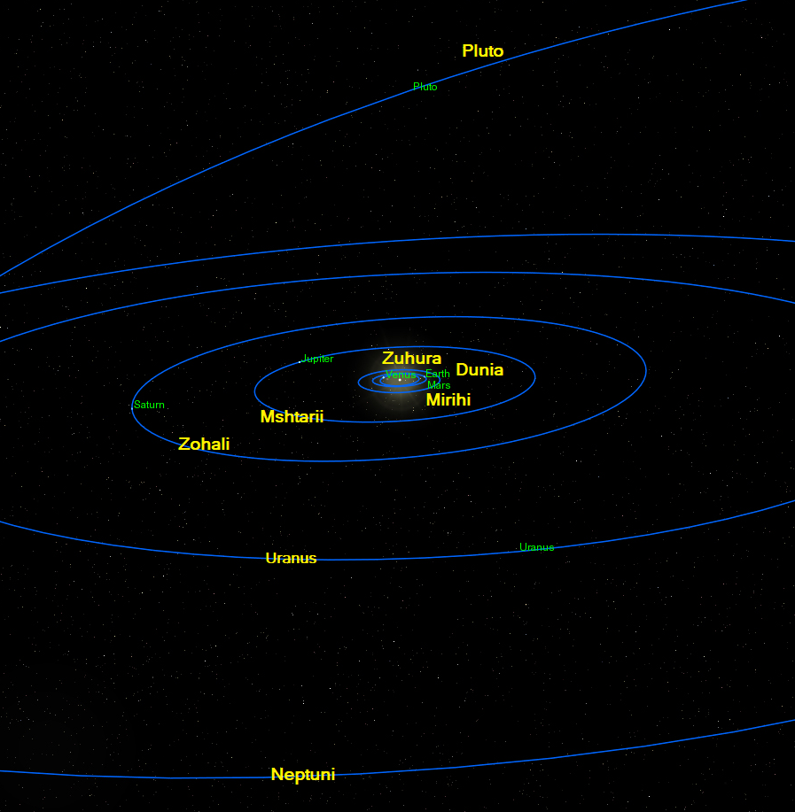 Solar System Orbits , Swahili labeled Kiswahili: Obiti za sayari kwenye mfumo wa Jua